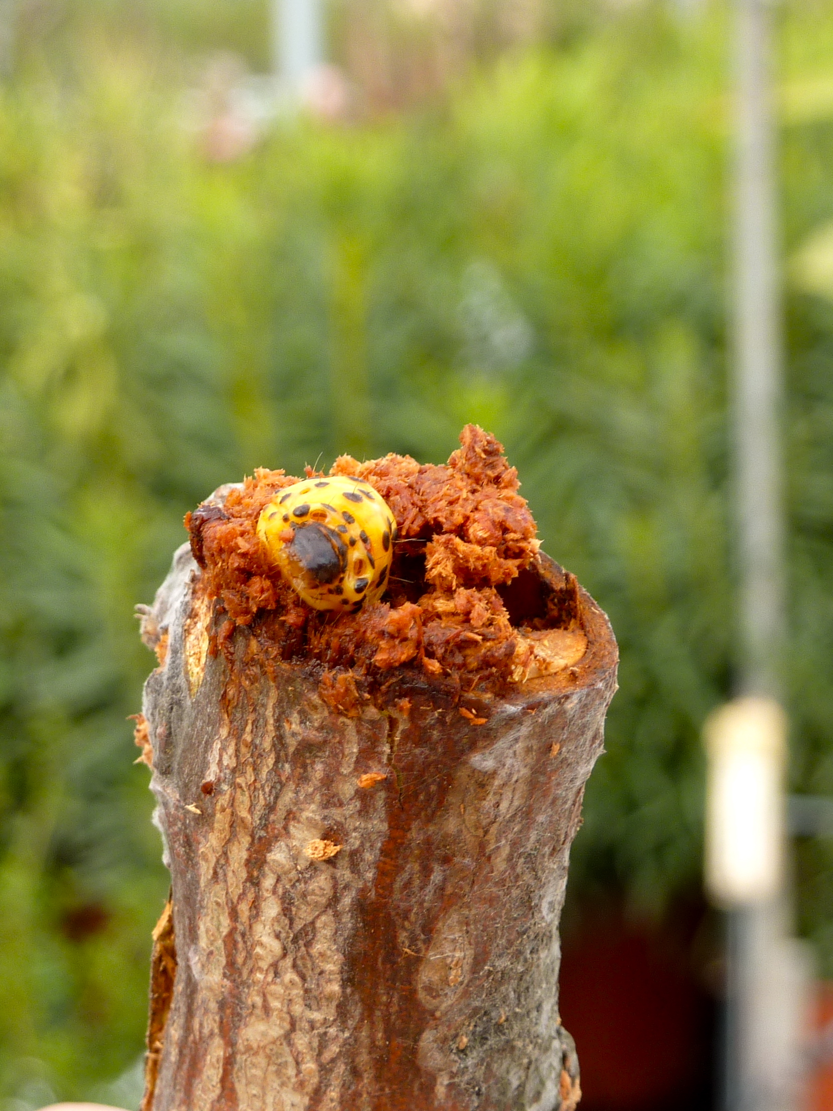 A Zeuzera pyrina caterpillar in a stem of an Apple tree.